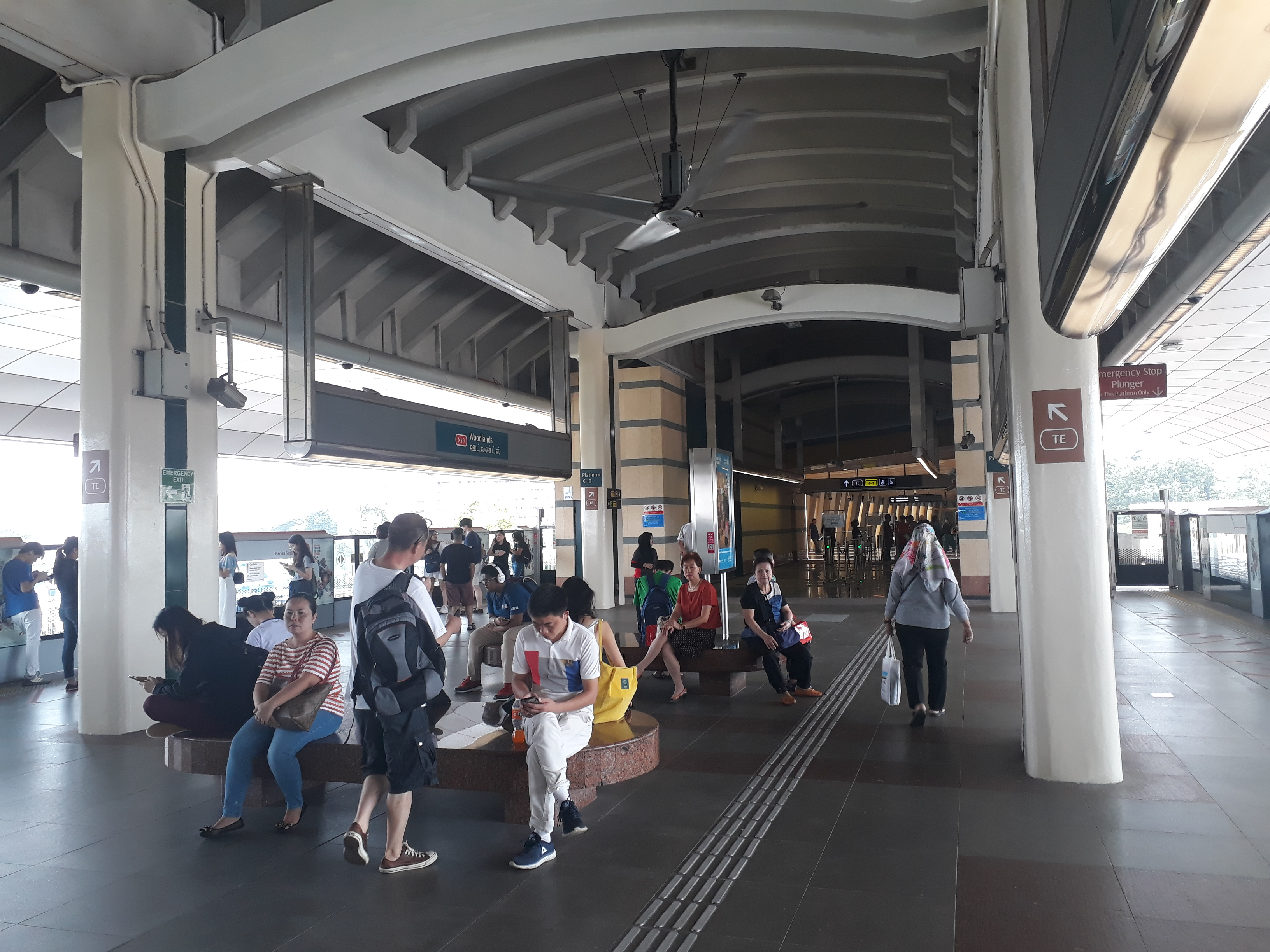 NSL platforms of Woodlands